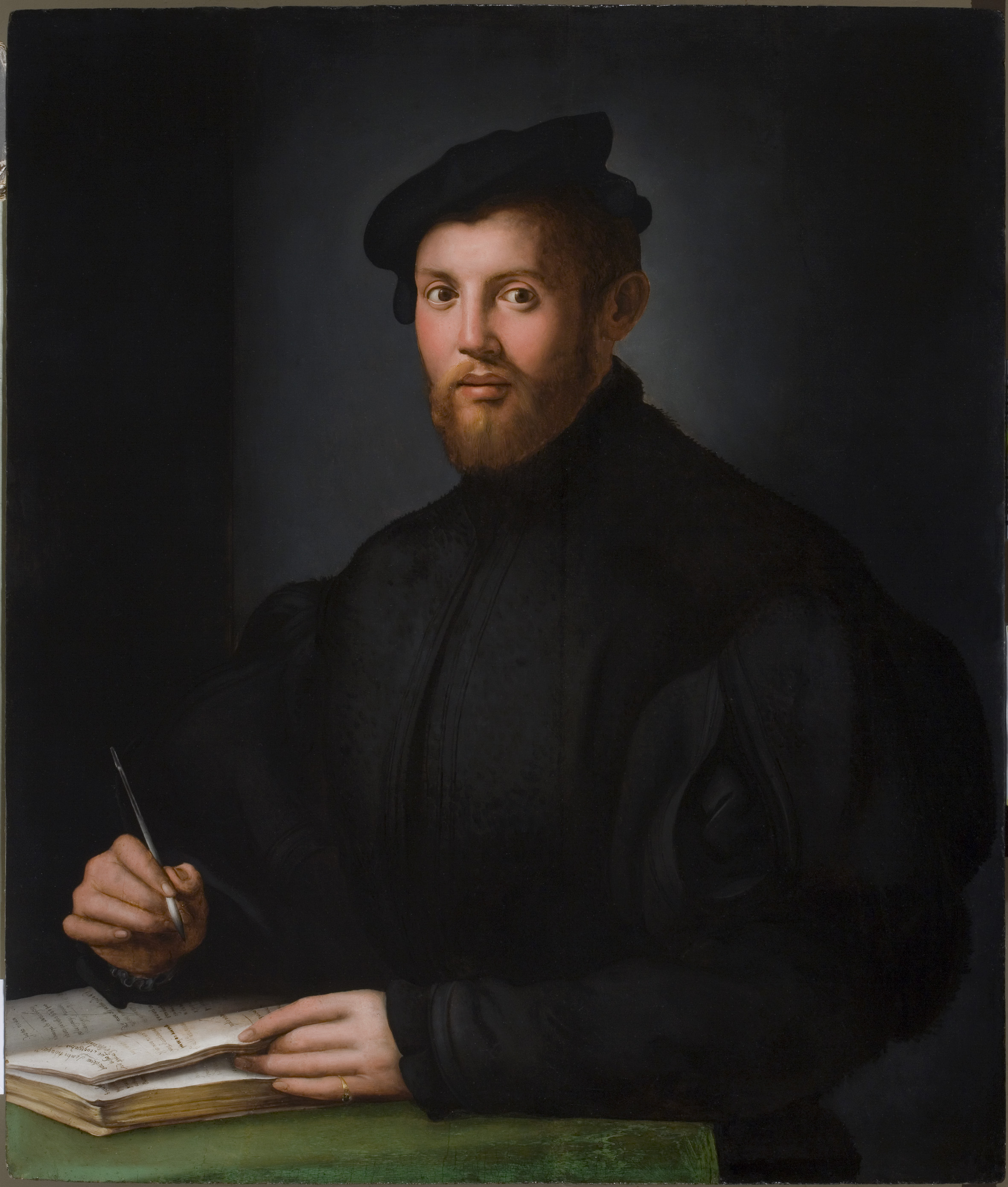 AGNOLO BRONZINO